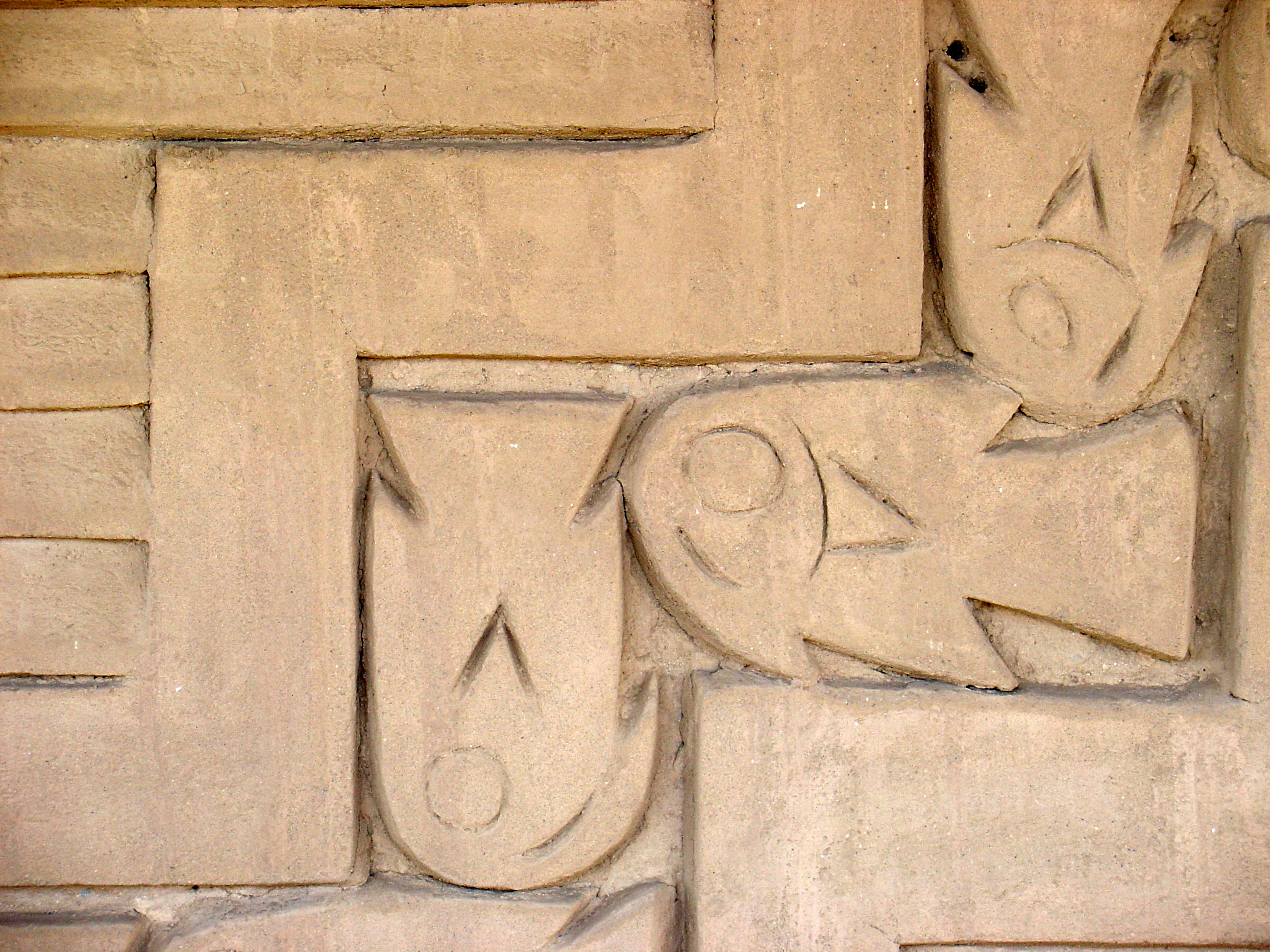 Sculpture details in Chan Chan, Trujillo, Peru